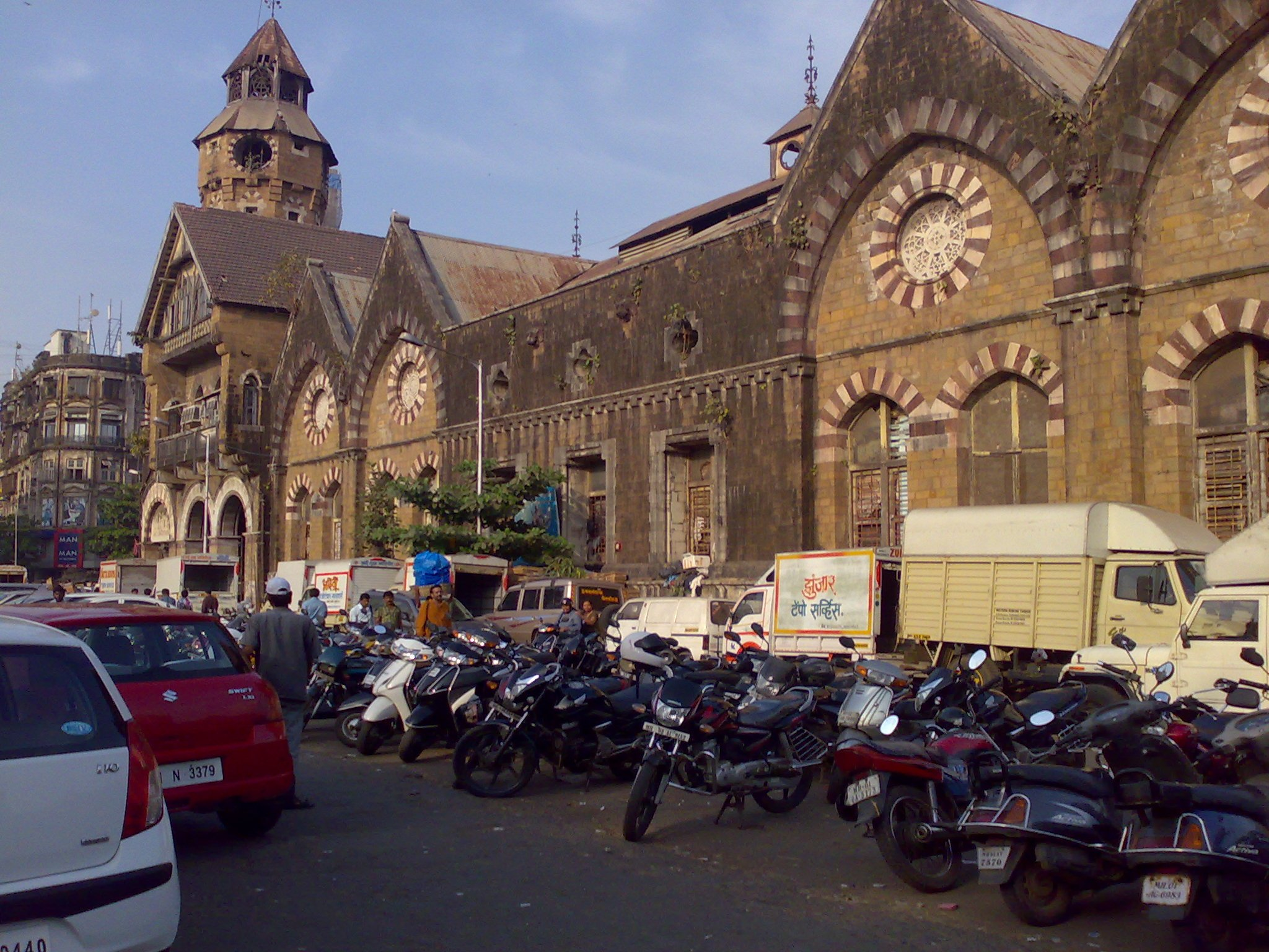 Crawford-market-mumbai